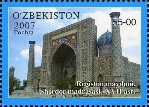 Stamps of Uzbekistan, 2007